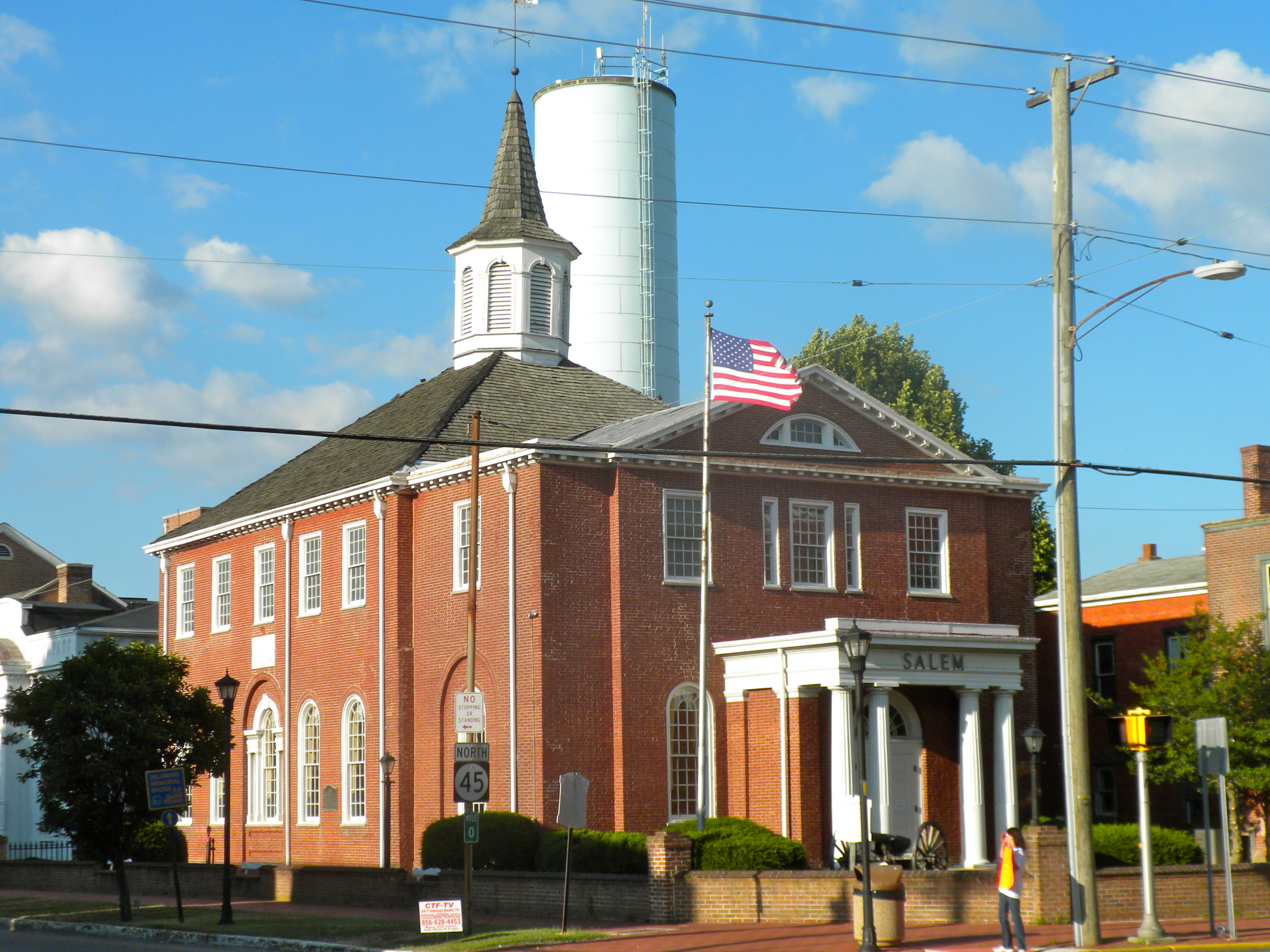 Old Salem Courthouse in Salem, New Jersey. By one standard, the 2nd oldest courthouse in the US (there's lots of ways of counting this). Surprisingly, it is not itself on the NRHP, but is in a Historic District, the Market Street Historic District on the NRHP since April 10, 1975 Irregular pattern on both sides of Market St. from Broadway to Fenwick Creek. Pre-revolutionary event involving the Greenwich, NJ teaburners, post revolutionary legend involving showing that tomatoes are not poisonous by eating them on the courthouse steps.